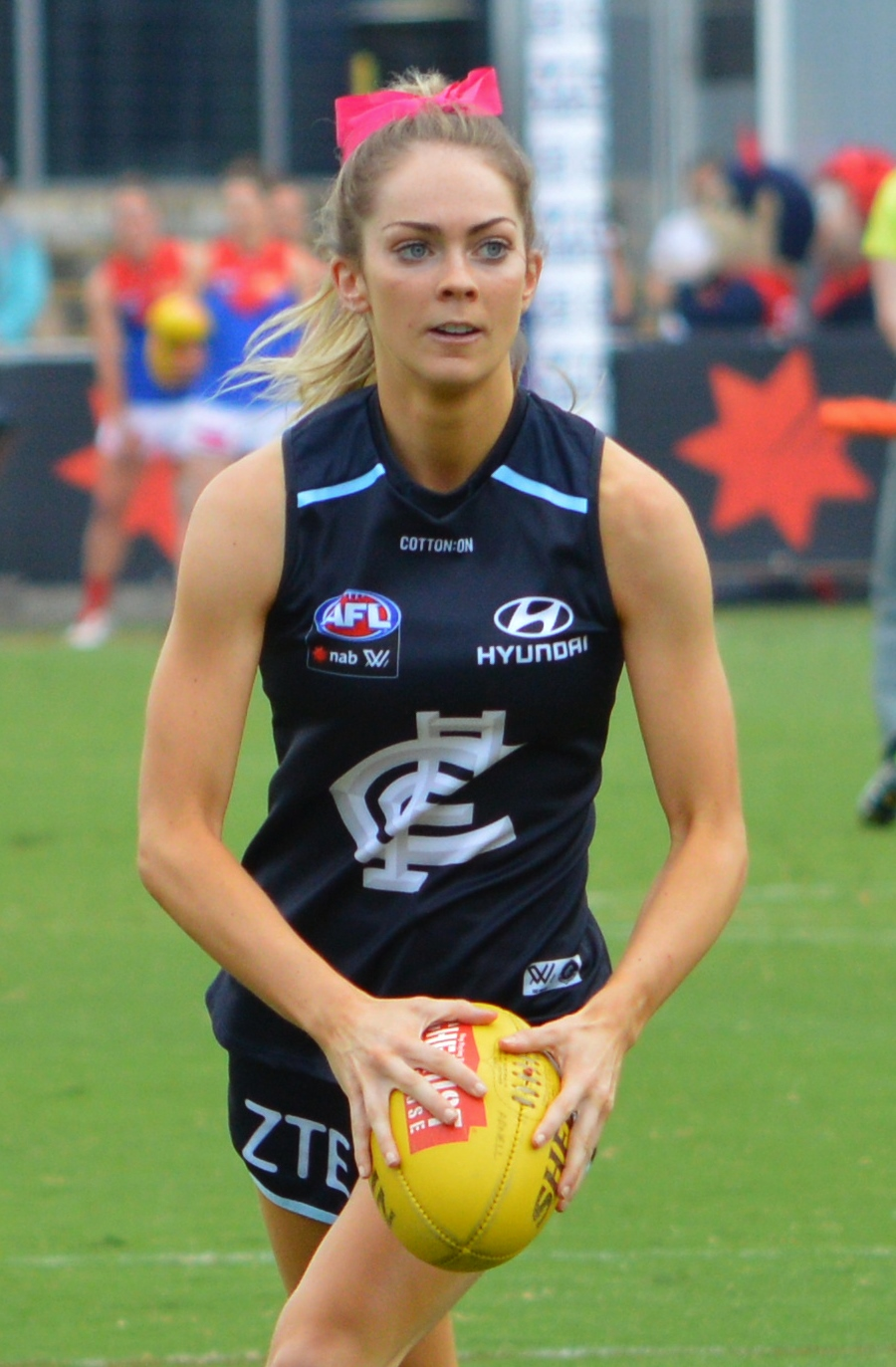 Bridie Kennedy during the round 6, 2018 AFL Women's match between Carlton and Melbourne.